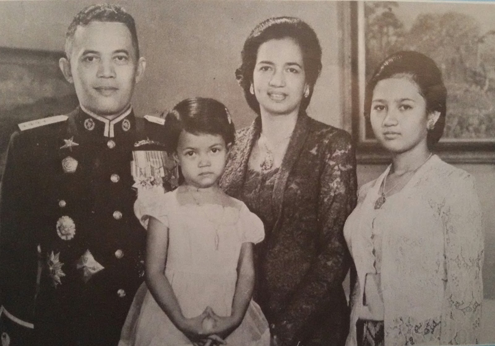 AH Nasution with his family. Photo taken several months before the 30 September Movement, which killed Ade Irma Suryani (second from left).